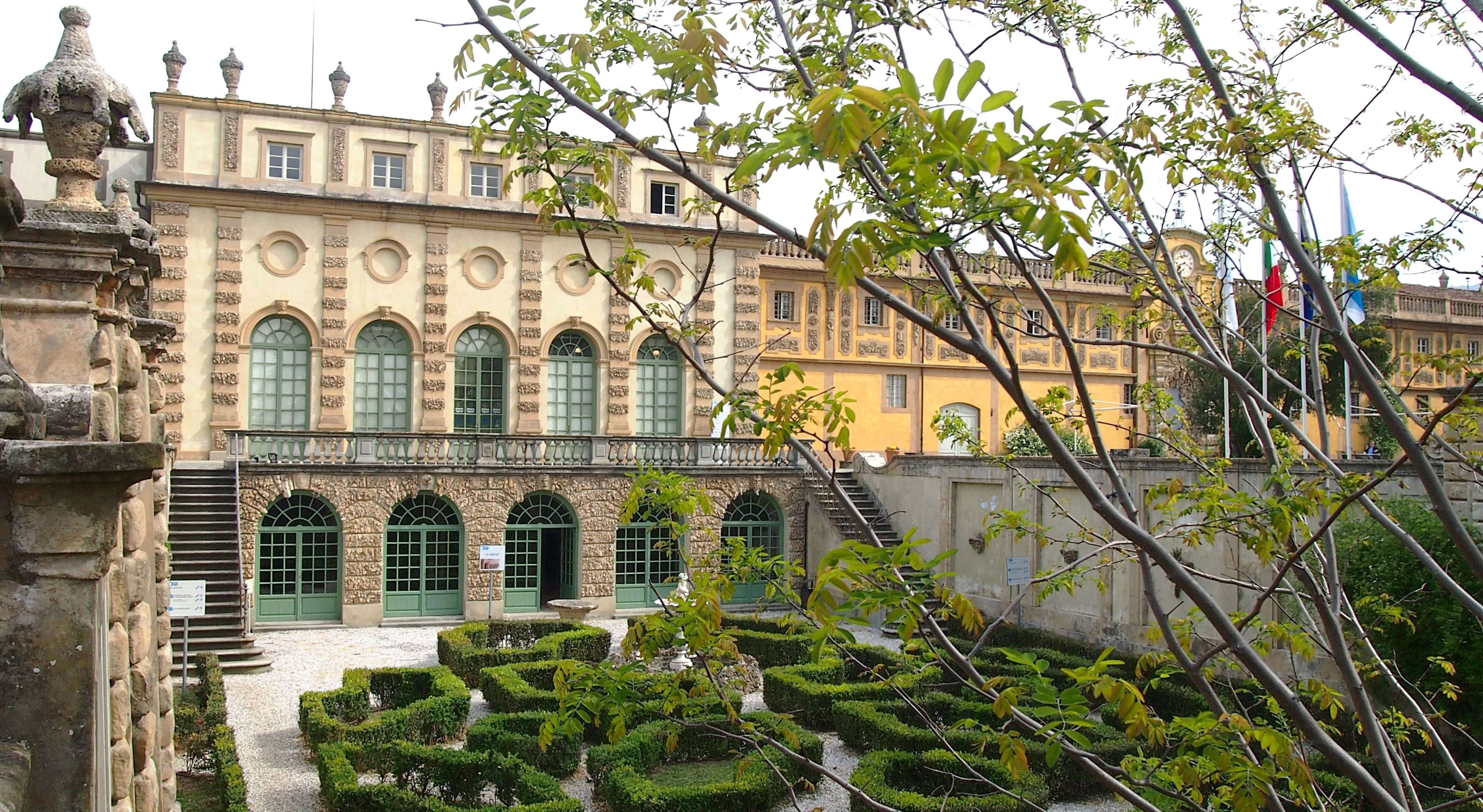 Villa Salviati, sede degli Archivi Storici dell'Unione Europea. Firenze (Italia), Aprile 2015